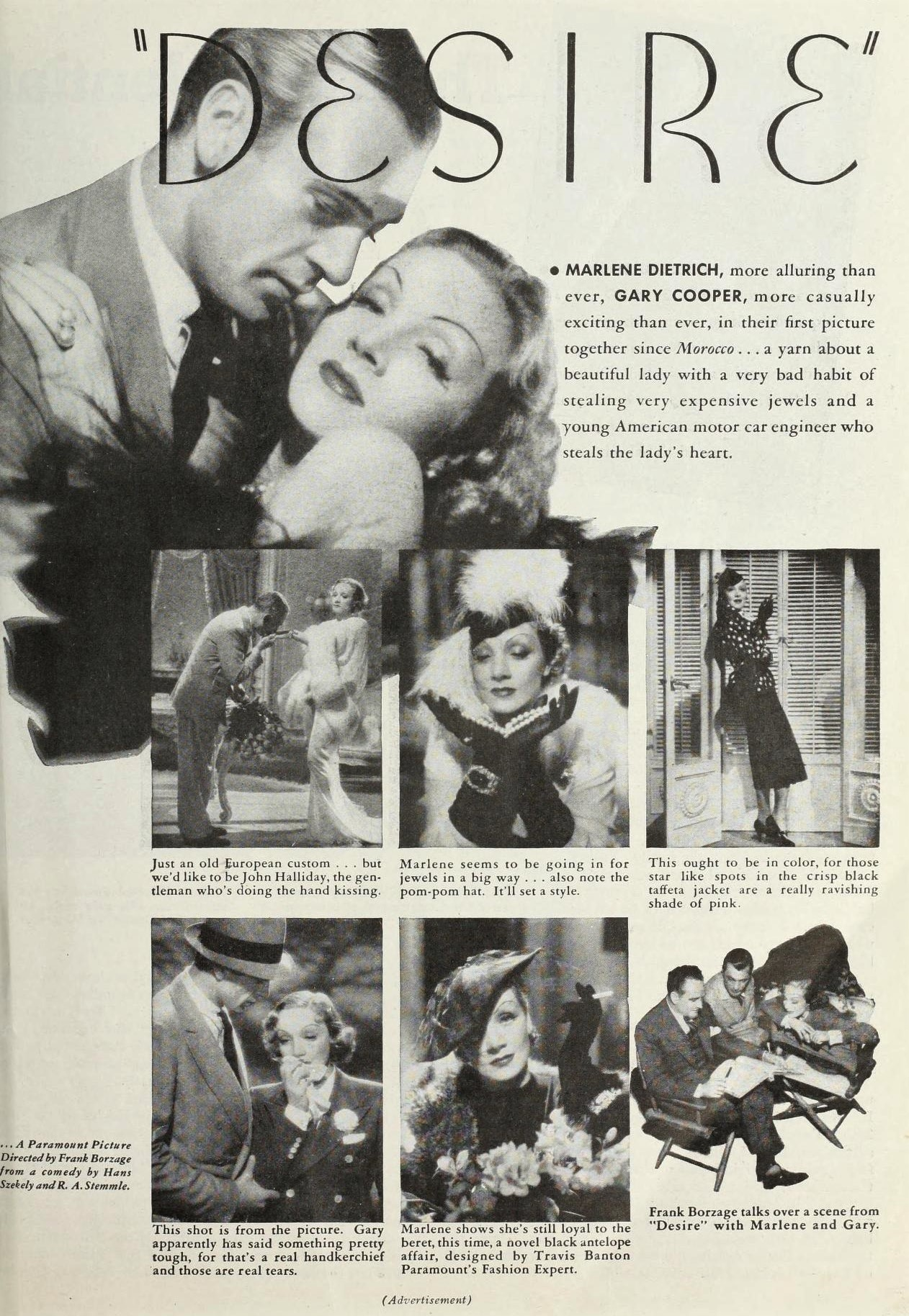 Marlene Dietrich and Gary Cooper in Desire, 1936